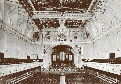 Interior of the Warsaw Philharmonic: concert organ made in Walcker's Factory (Walcker Orgelbau) in Ludwigsburg (42 voices) embellished with busts of prominent musicians; arcade above the organ adorned with oil panneaux paintings by Henryk Siemiradzki - Musica sacra and Musica profana; plafond by Antoni Jan Strzałecki depicting The Life of the Muses on Olympus. Burned down in September 1939 as a result of severe aerial bombardment by the Germans.[1]